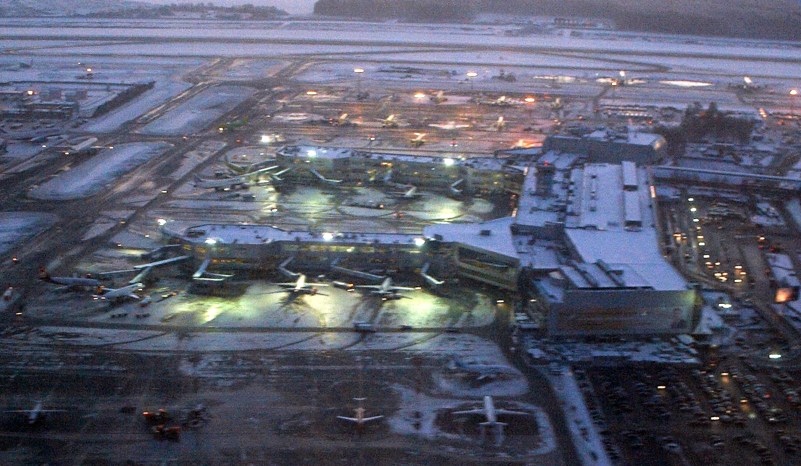 Domodedovo airport, Moscow, aerial view